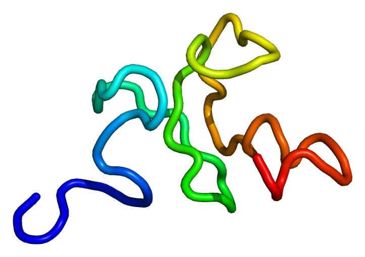 Structure of the CHD4 protein. Based on PyMOL rendering of PDB 1mm2.